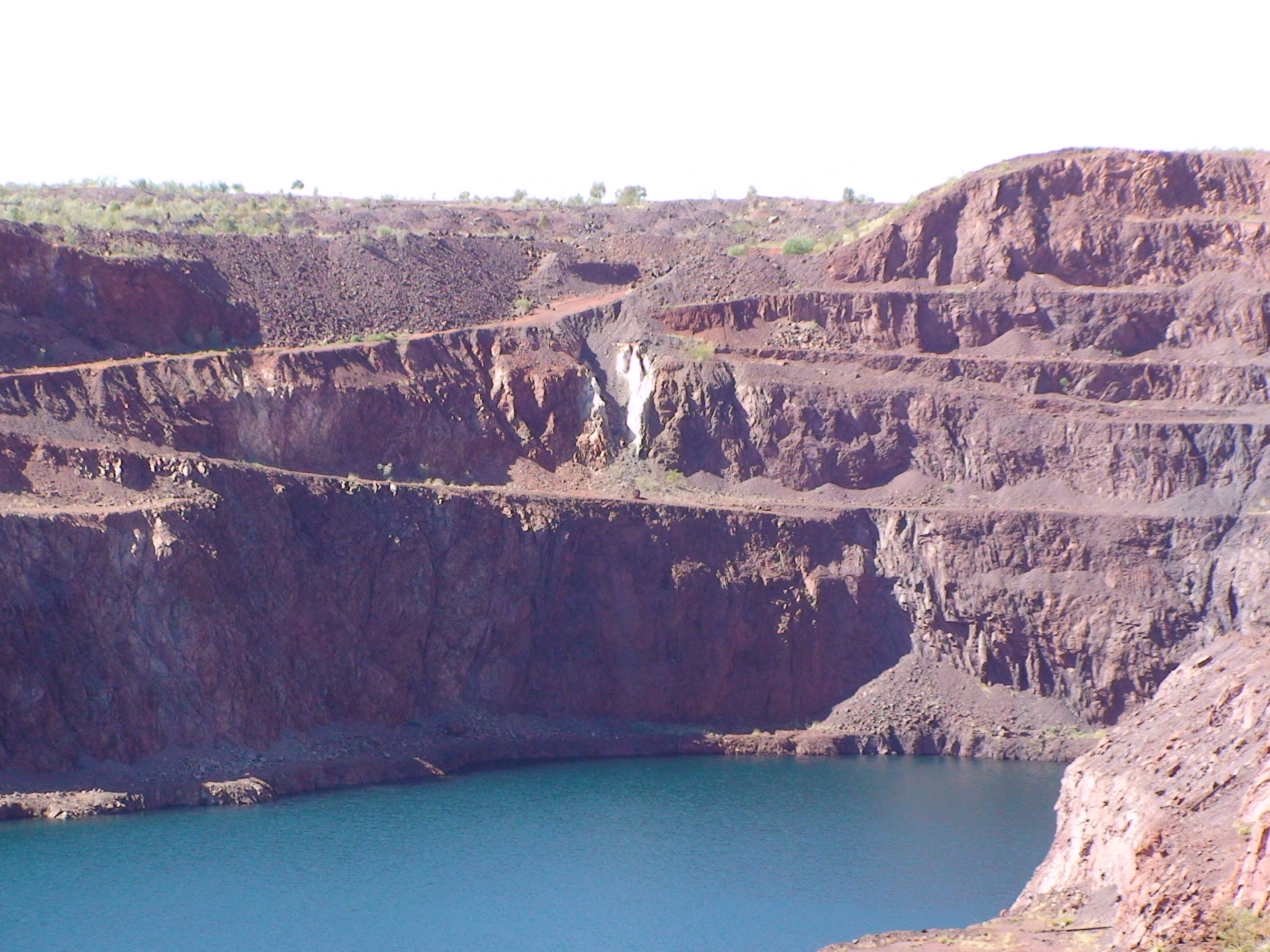 The abandoned Mount Goldworthy mining pit in 2008